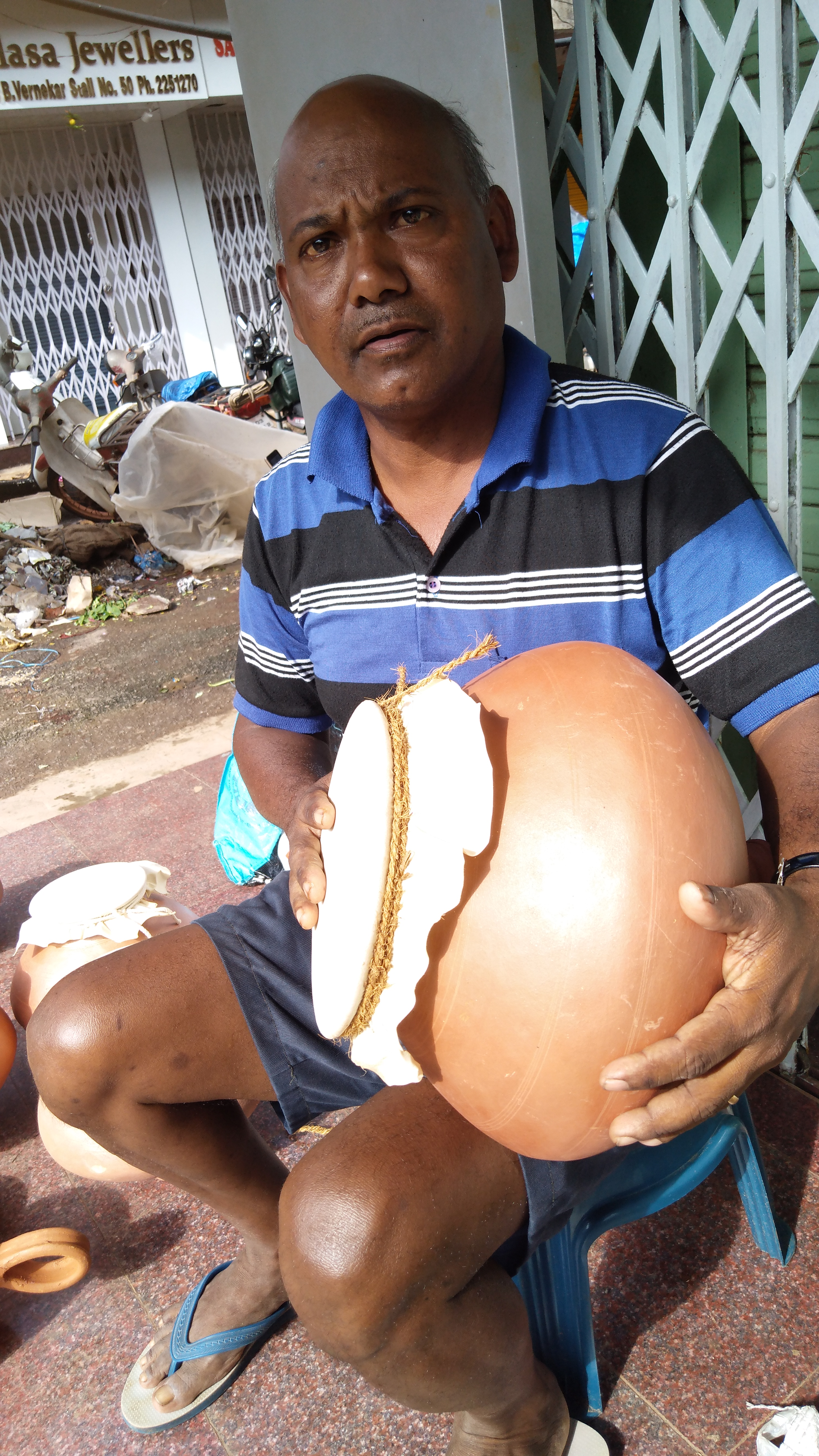 Sold at the Mapusa market